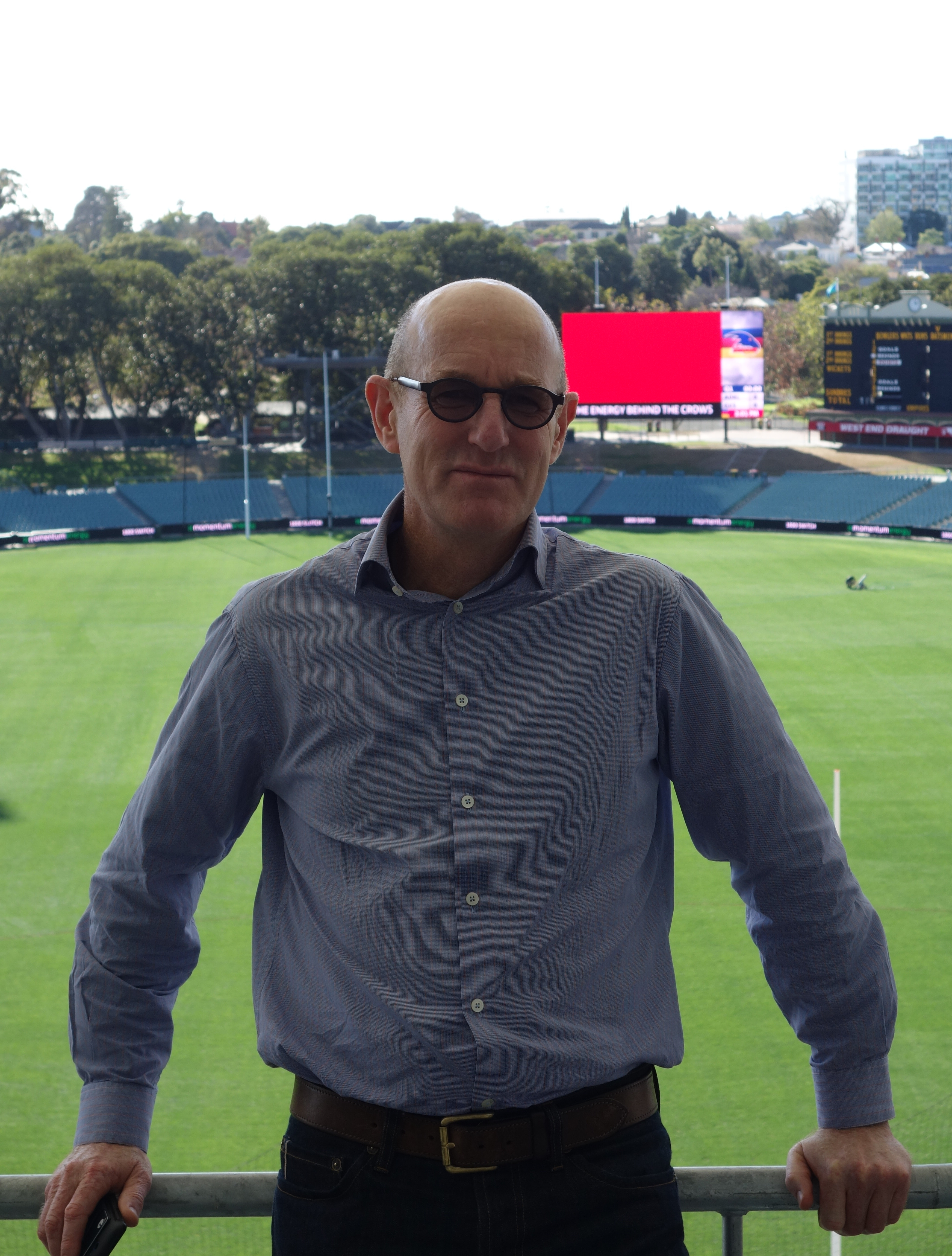 Photos from Velo-city 2014